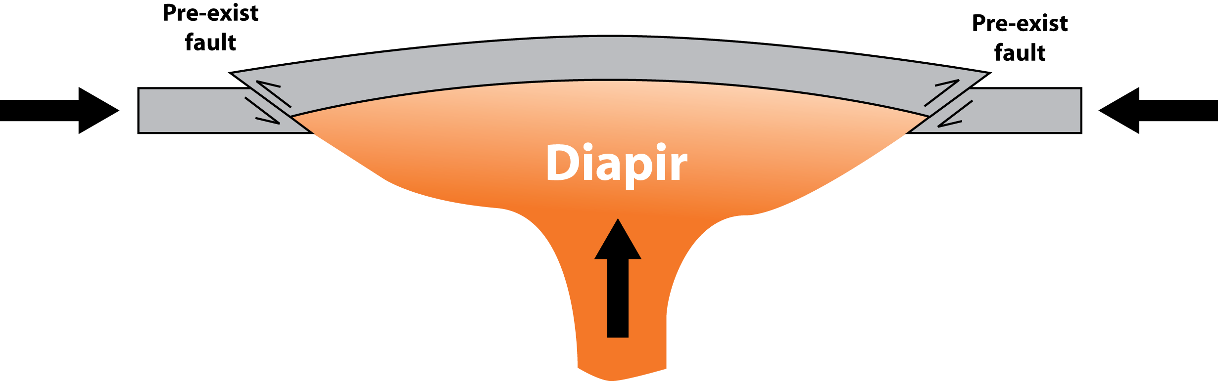 THis figues shows buoyant mantle diapir. It can locally enhance the compressive stress on Io's lithosphere. Faults that exist before raising of diapirs are moved by the force of diapiring.